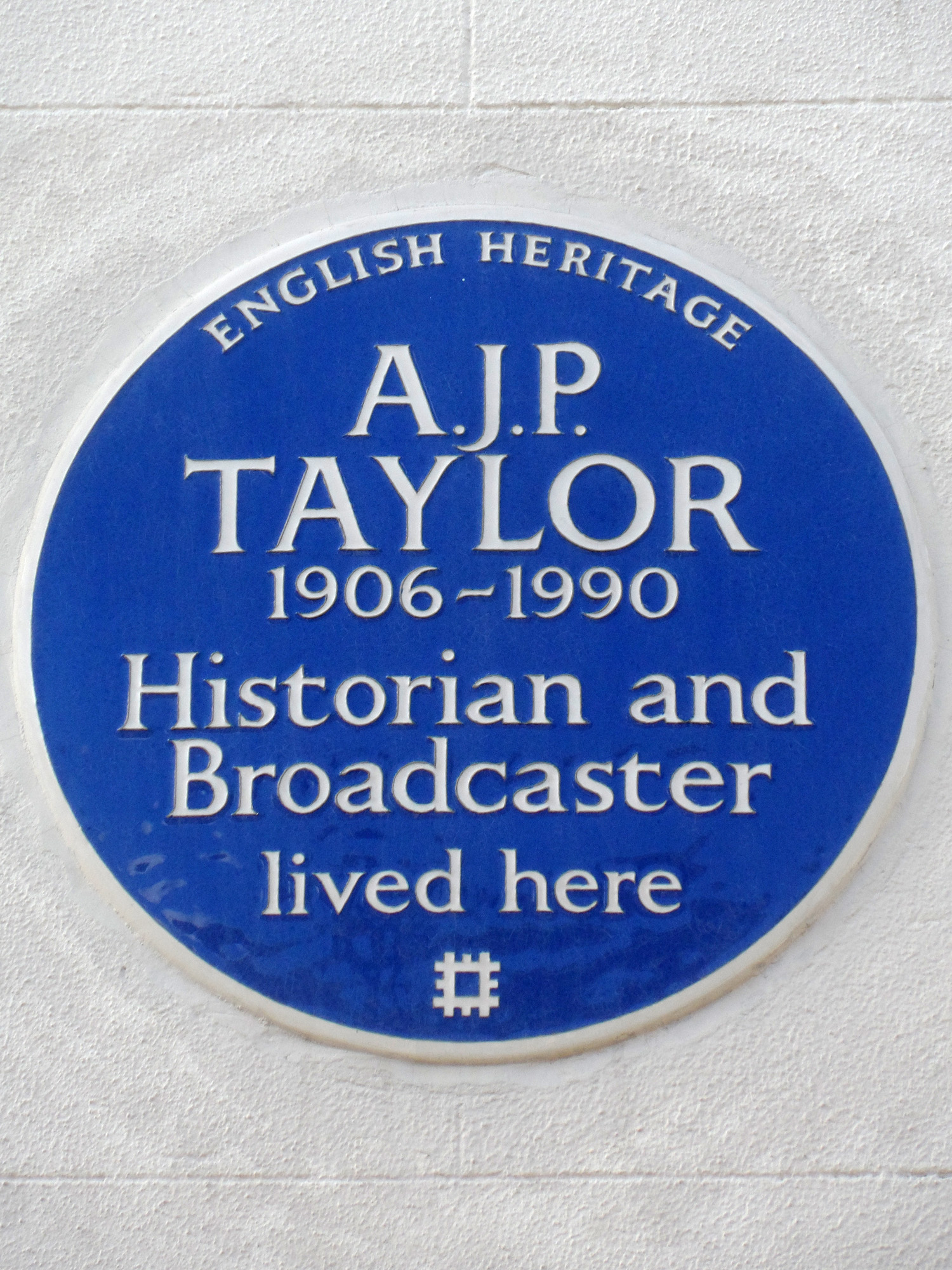 Blue plaque erected in 2012 by English Heritage at 13 St Mark's Crescent, Primrose Hill, London NW1 7TS, London Borough of Camden